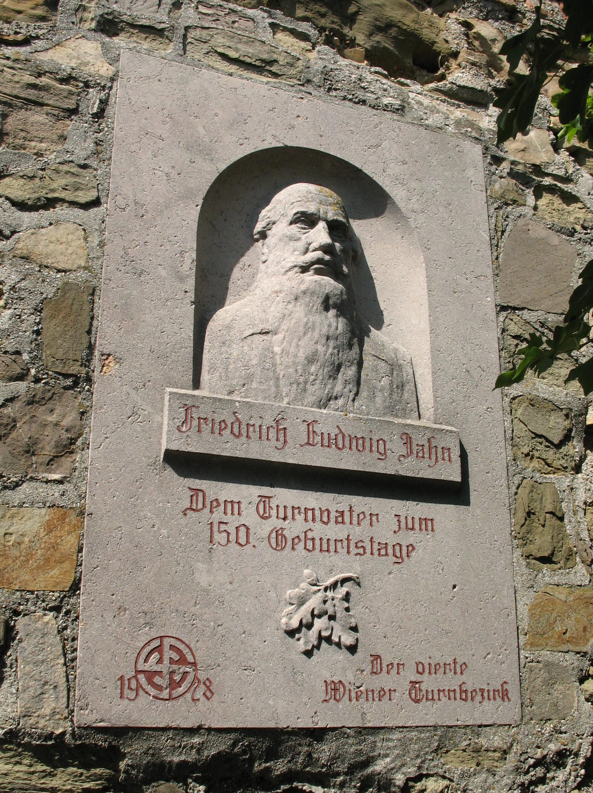 Jahn memorial in Vienna, AustriaThe "FFFF" (left below) in a swastika-like arrangement.